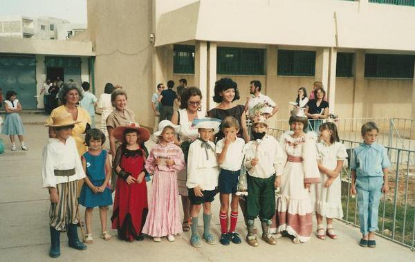 Polish School in Al Bayda (Libya) in 1984 .